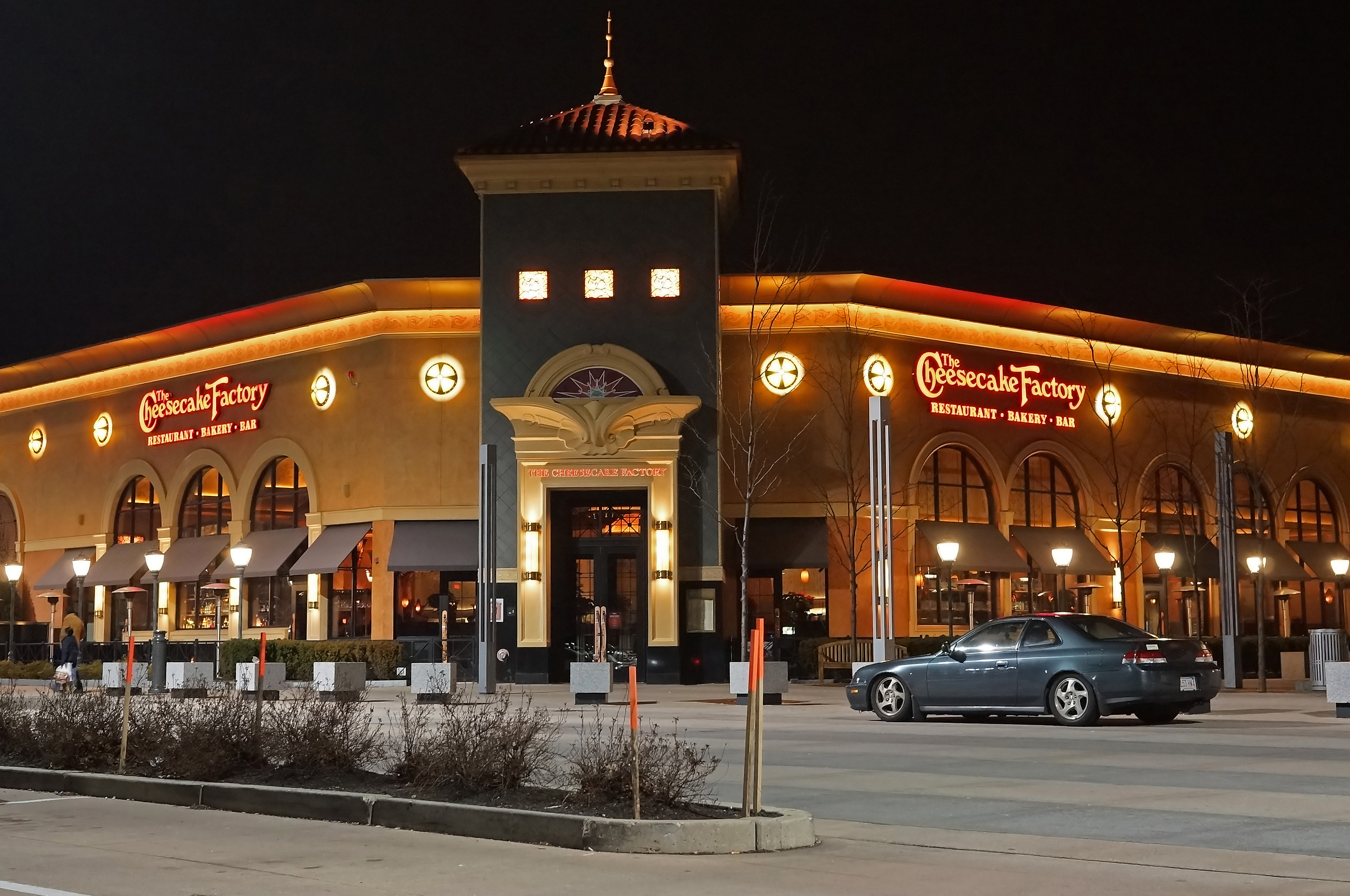 Cheesecake Factory Restaurant, North Shore Mall, Peabody, Massachusetts USA.